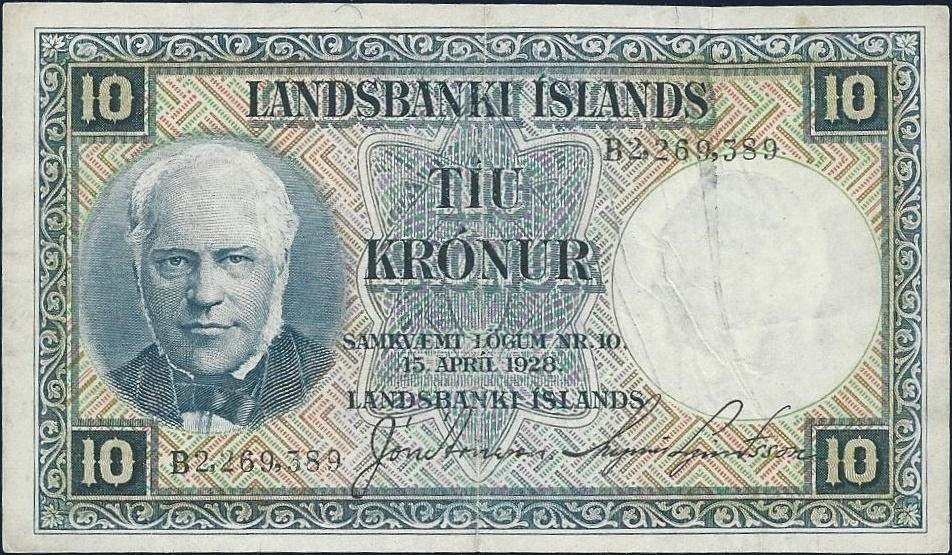 Sigurdsson, Jon, 1811 Hrafnseyri, in Arnarfjörður in the Westfjords area of Iceland - 1879 Copenhagen, Denmark Portrait of Jon Sigurdsson at l. /Waterfalls at r. Prefix B, signature 1. Pick 28c. Condition: Clean VERY FINE+